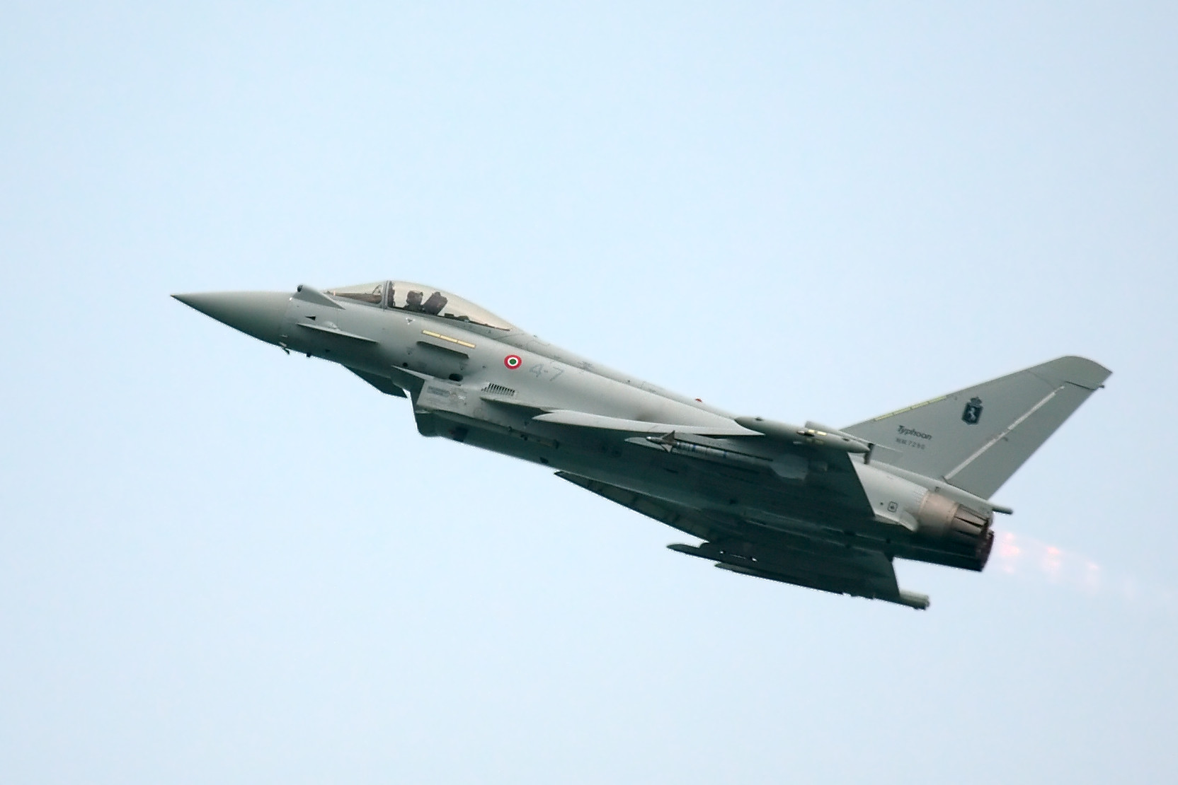 Eurofighter Typhoon from Italain Stormo 4 during an air show in Jesolo.